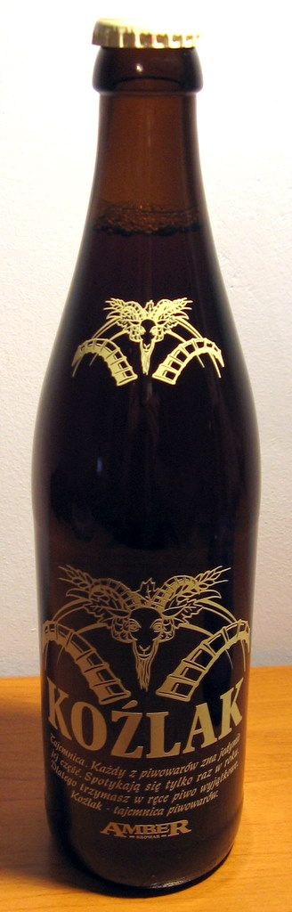 A bottle of bock beer Koźlak - polish brewery Amber.